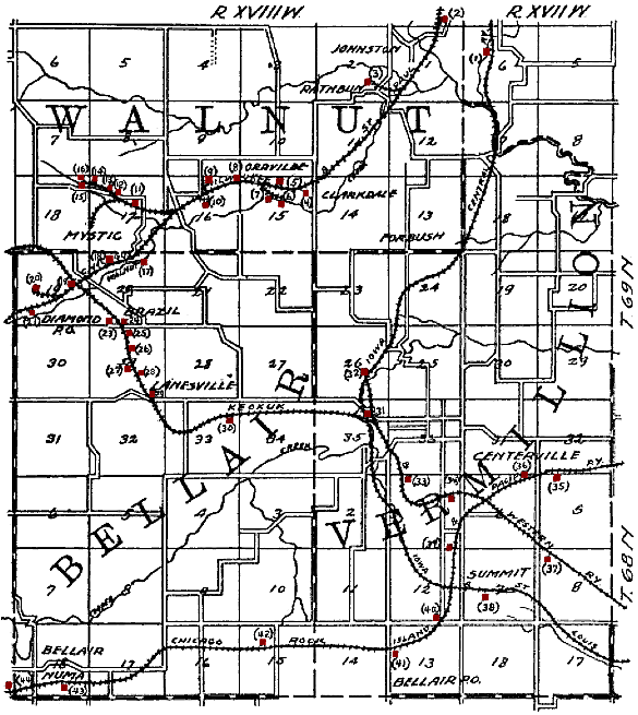 Original caption: "Figure 63. Map showing shipping mines in central Appanoose county." Centerville, Iowa is in the lower right quadrant. Mines have been tinted red by the uploader. The railroads shown on the map are: Chicago, Rock Island and Pacific Railroad, Chicago, Milwaukee and St. Paul Railroad, Keokuk and Western Railroad, Iowa Central Railway and Iowa and St. Louis Railway.